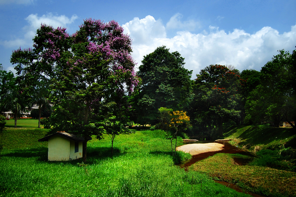 This was a picture i took last month in Peradeniya, Sri Lanka just next to the University.